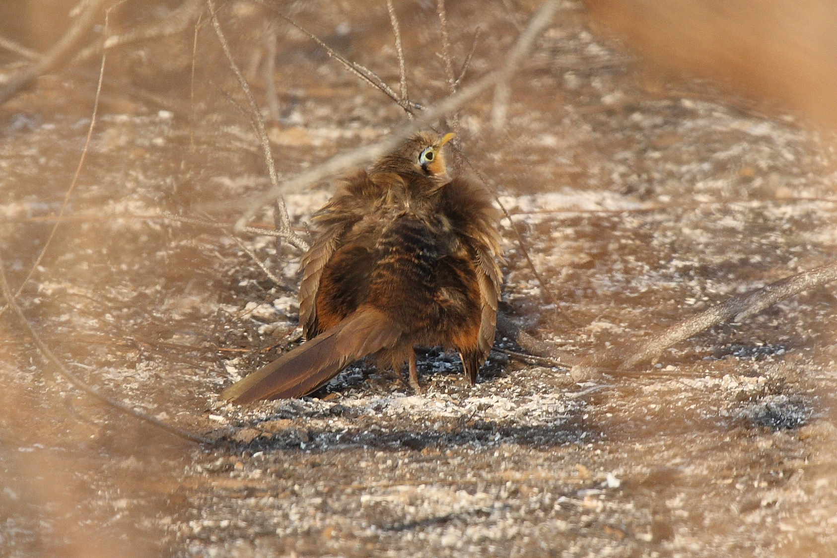 Lesser Ground-cuckoo (Morococcyx erythropygus) Dysmorodrepanis 22:52, 30 May 2008 (UTC)